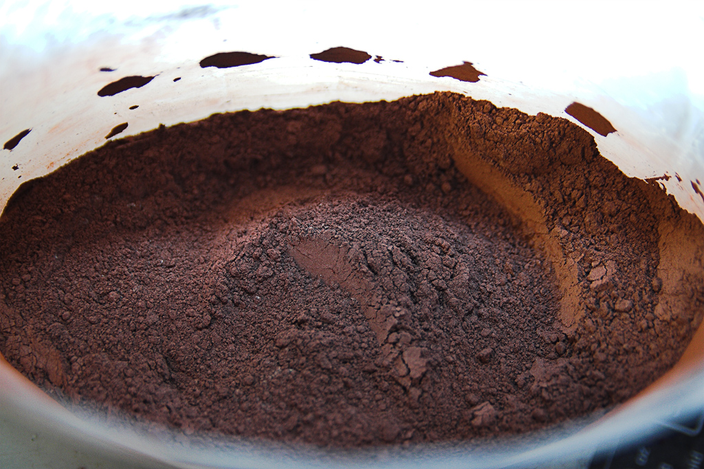 A photo of ~ 110 g of Thermite